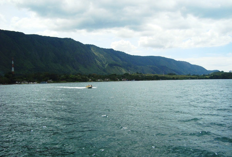 The beauty of the natural scenery of Lake Toba, North Sumatra.